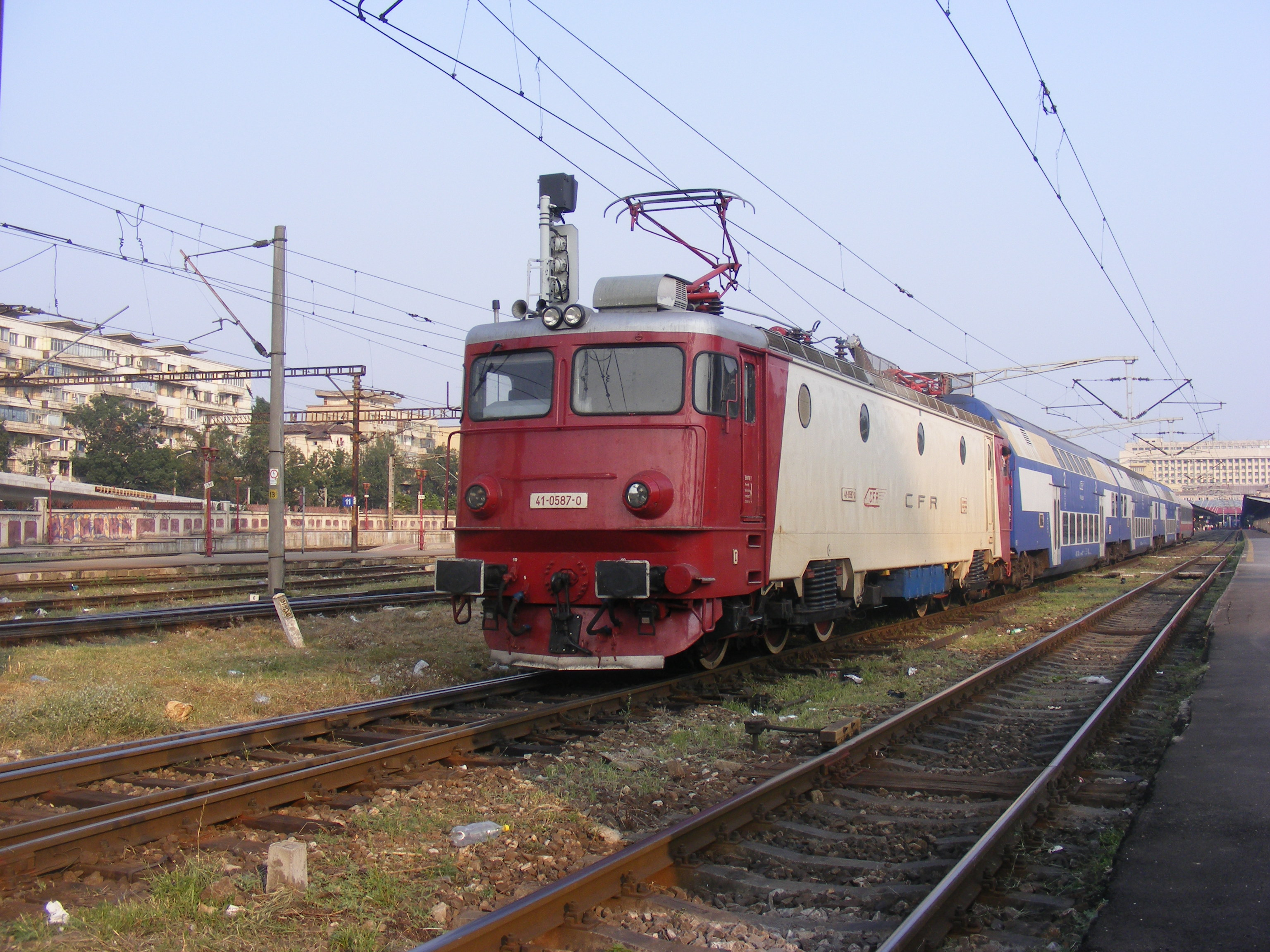 CFR EA1 587 is pushing/reversing a semifast train in Gara de Nord.